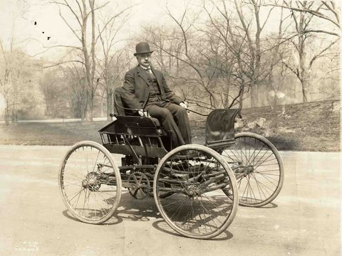 Elwood Haynes driving his first car, the Pioneer, before donating it to the Smithsonian Institute, c. 1910